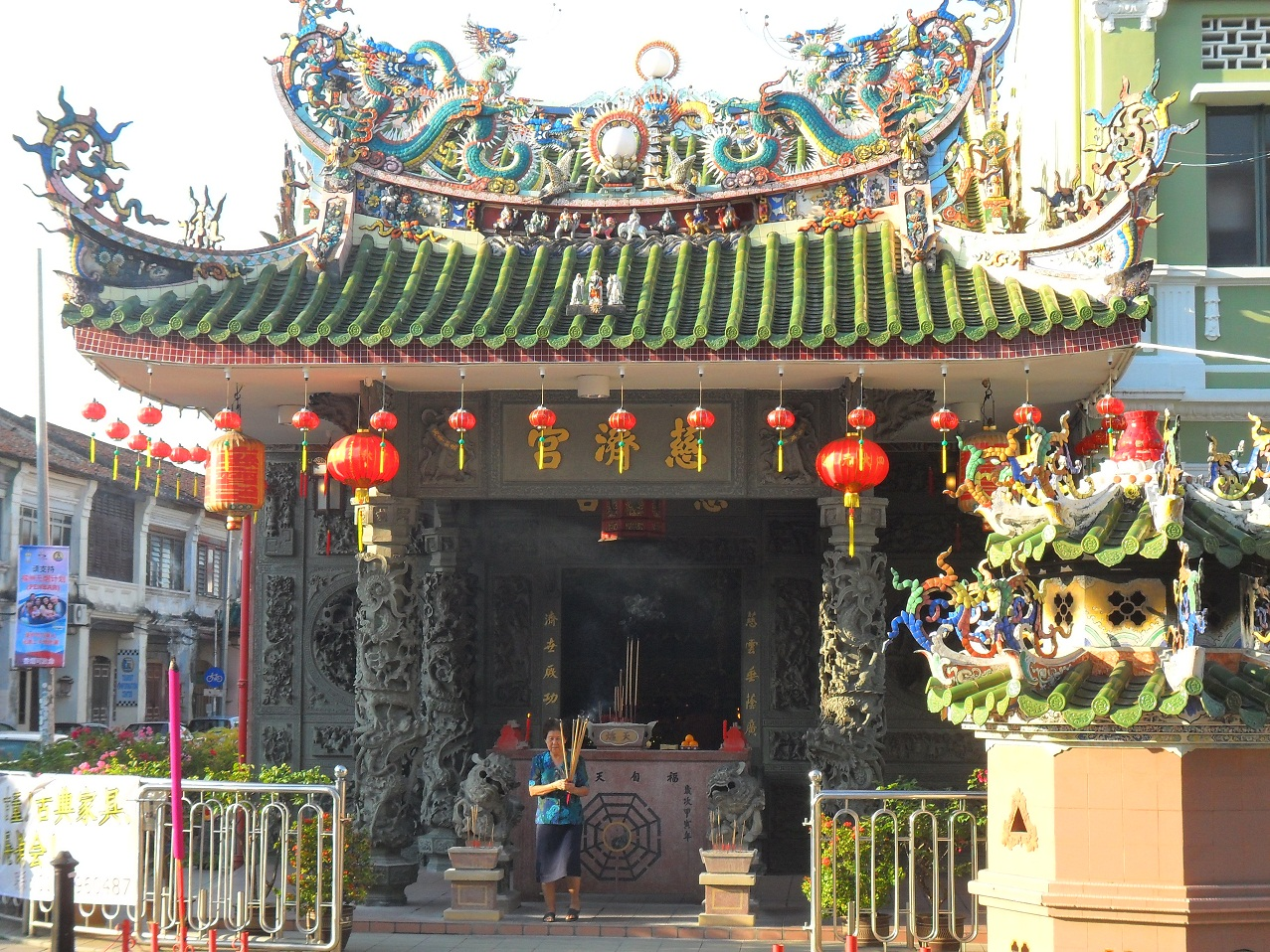 Yap Kongsi Chinese Temple, George Town, Penang, Malaysia